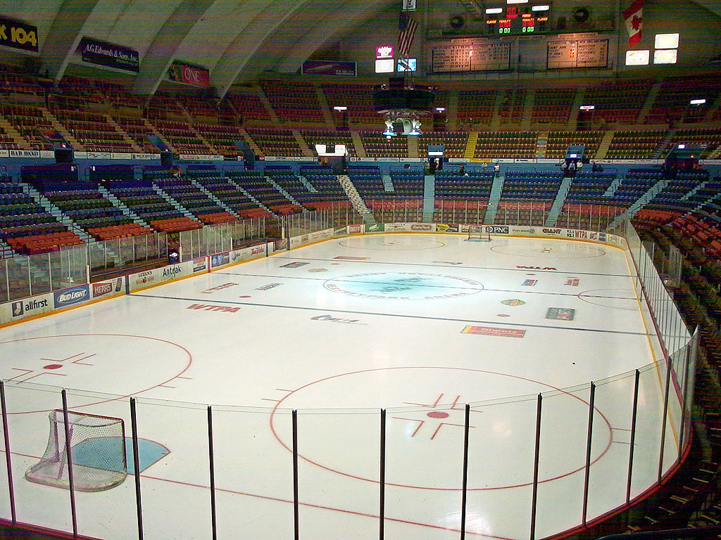 HersheyPark Arena, Hershey, PA 2001-02 season